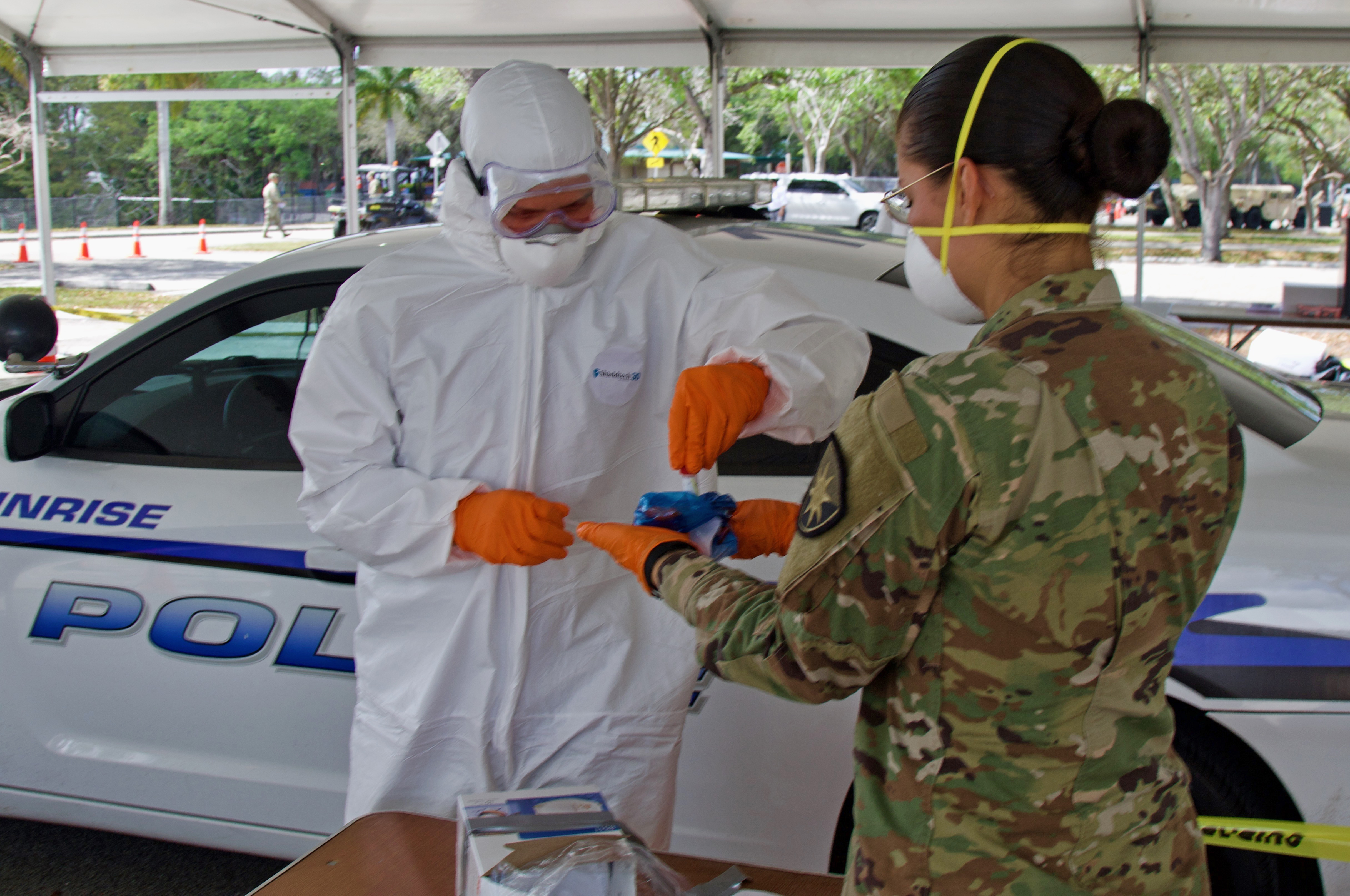 Florida National Guard Spc. John Larson (left), with the Florida Medical Detachment, places a collection into a bio-hazard bag at a COVID-19 Community Based Testing Site, March 19, 2020. South Florida’s first COVID-19 Community Based Testing Site is located at C. B. Smith Park.